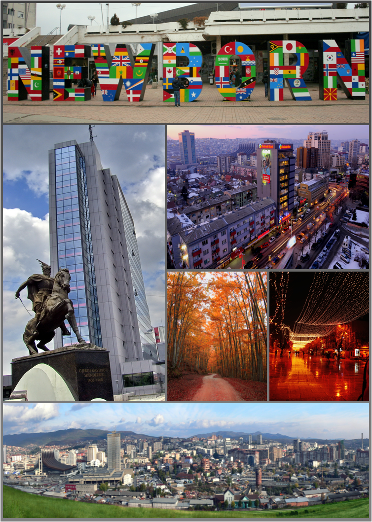 Photo montage of Pristina, the capital of Kosovo. The majority of pictures are taken in 2013. Photos used: Mother Teresa Square: Panoramic: Government Building and Skanderbeg Monument: Germia Park Entrance: Modern Prishtina: New Born Building